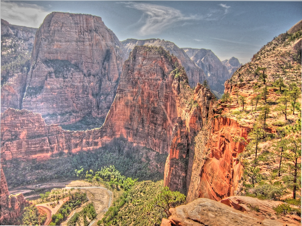 Angels landing final steps to the top